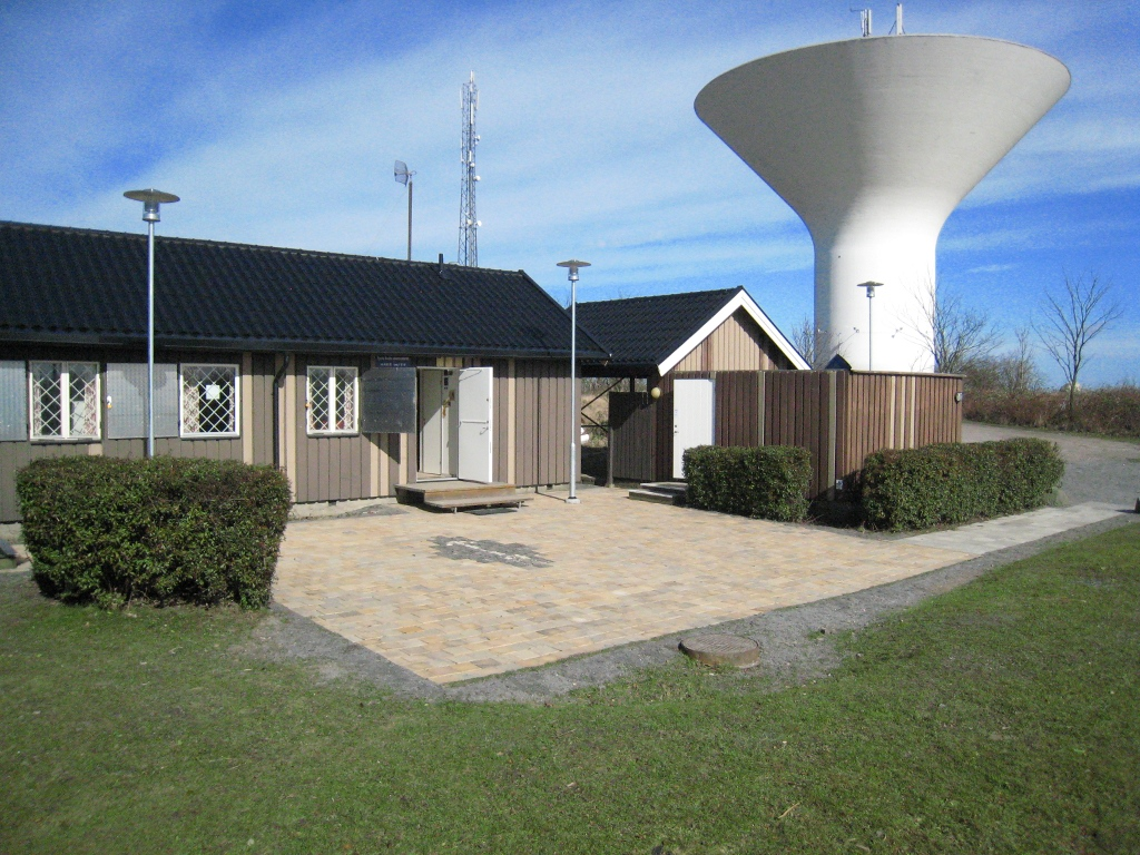 The amateur astronomy Tycho Brahe observatory, in Oxie, near Malmö, Sweden.